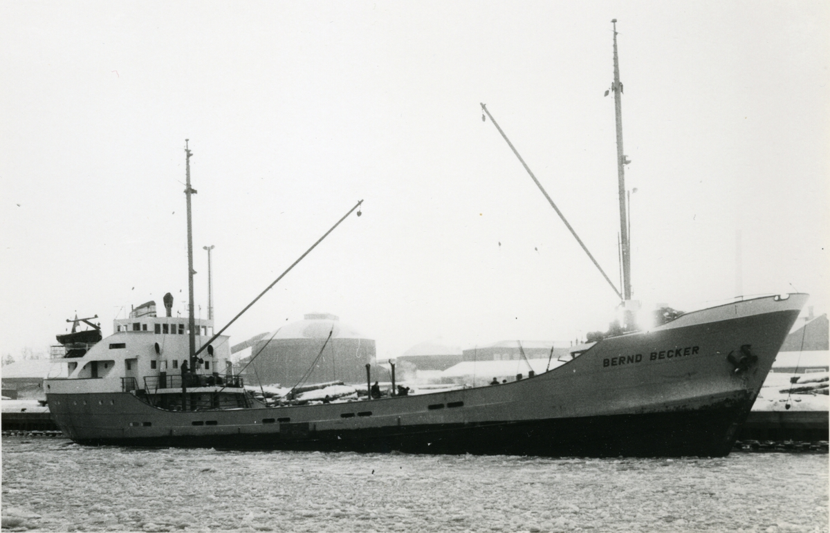 German coaster BERND BECKER (IMO 5042613) built at J.J. Sietas Schiffswerft, Hamburg-Neuenfelde, for Arnold Becker, Hamburg (yard № 392, Sietas type HG, launched: 14-12-1955, delivered: 31-12-1955), 1967 JOHN, 1985 BRUMMI, 1998 NACER, abandoned at Bizerta after being towed in with engine damage 27-11-1993, 03-2002 deleted from the register; collection J. Robert Boman (1926–2002) owned by Sjöhistoriska museet.